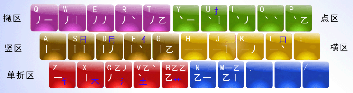 This is a keyboard image of Chaoqiang Yinxing Erbi input method(超强音形输入法，超强二笔的26键版本), an input method for Chinese character. The origial input mathod's author is Fu Dongsheng（付东升）,the creater of Chaoqiang Yinxing Erbi input mathod. And the image is a screenshot made by a free software.